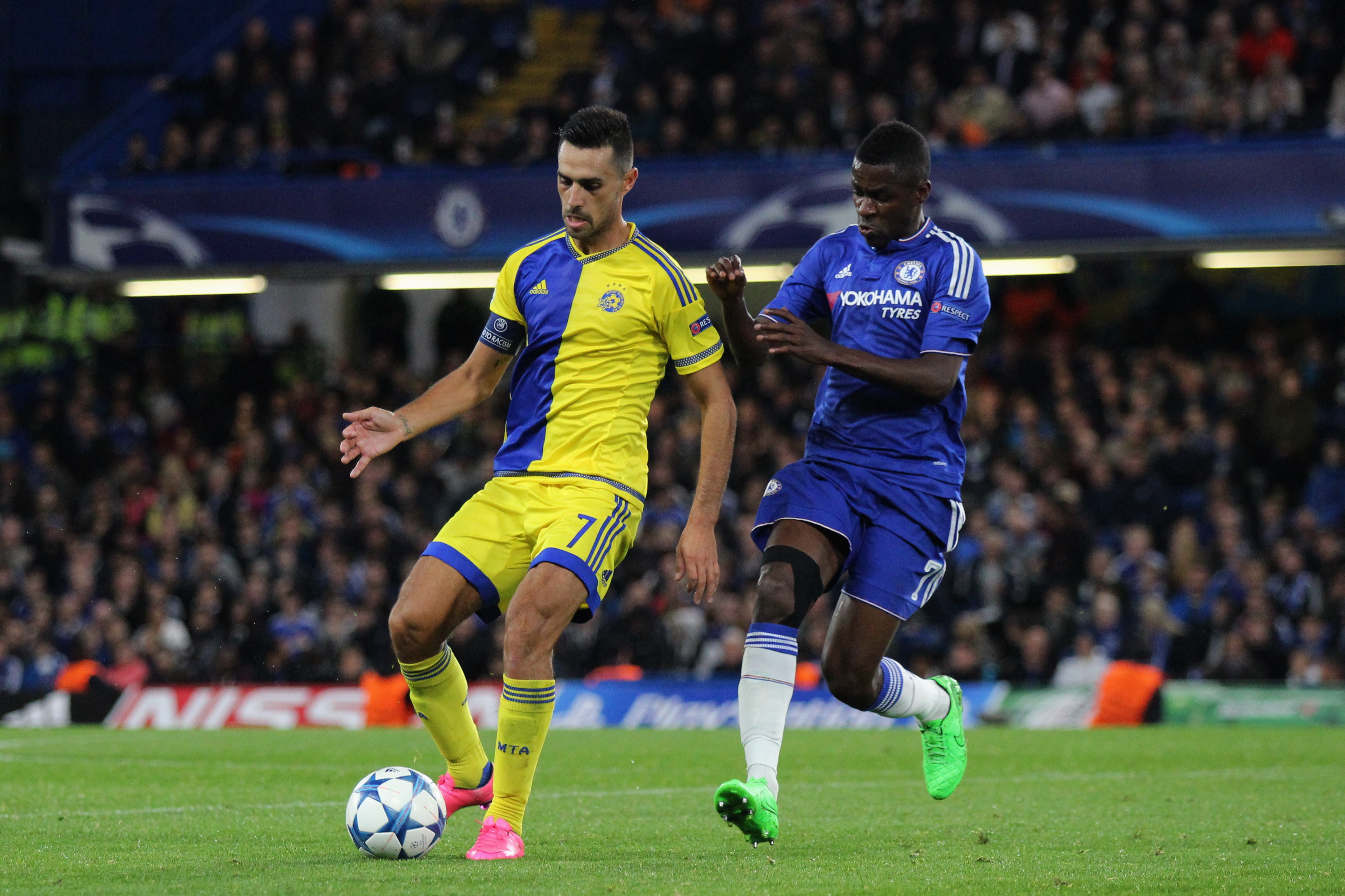 Eran Zahavi of Maccabi Tel-Aviv on the ball during the Champions League game against Chelsea.